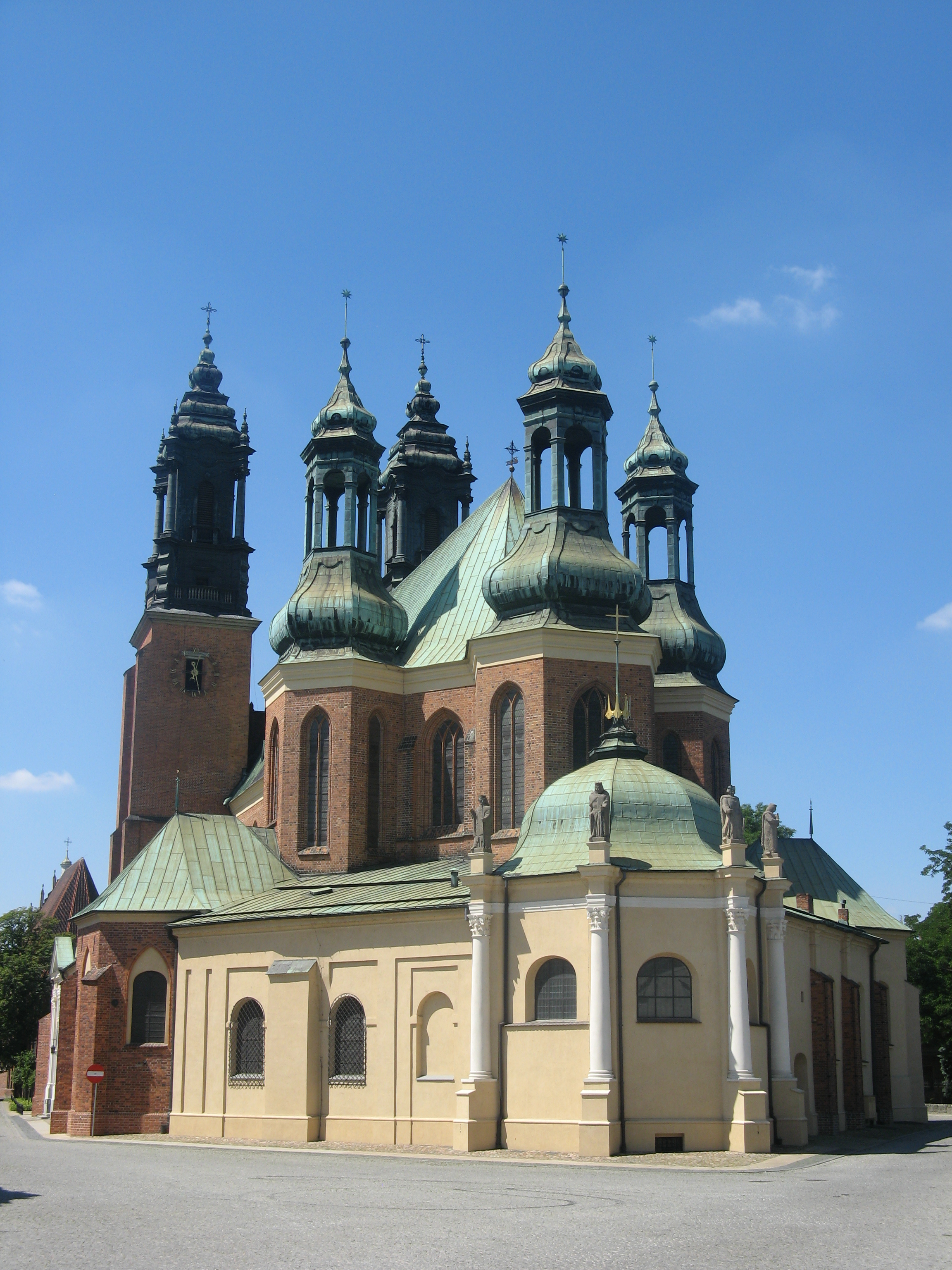 The Archcathedral Basilica of St. Peter and St. Paul, Poznań